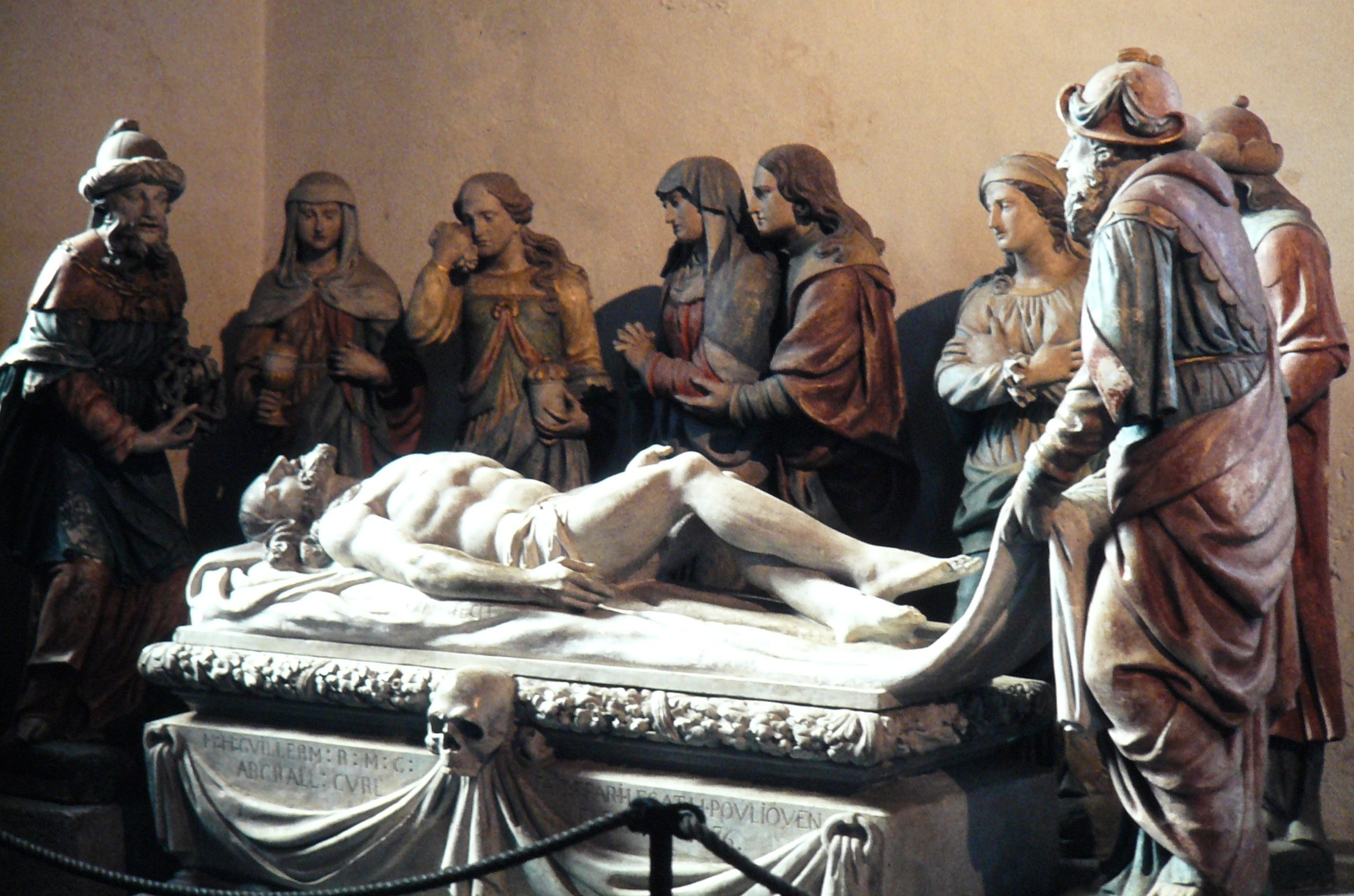 Entombment tableau by Antoine Chavagnac (1676), Church of Lampaul-Guimiliau, Brittany, France